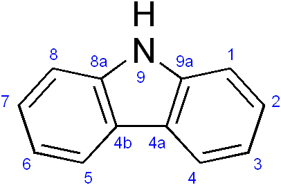 Chemical structure of carbazole created with ChemDraw.